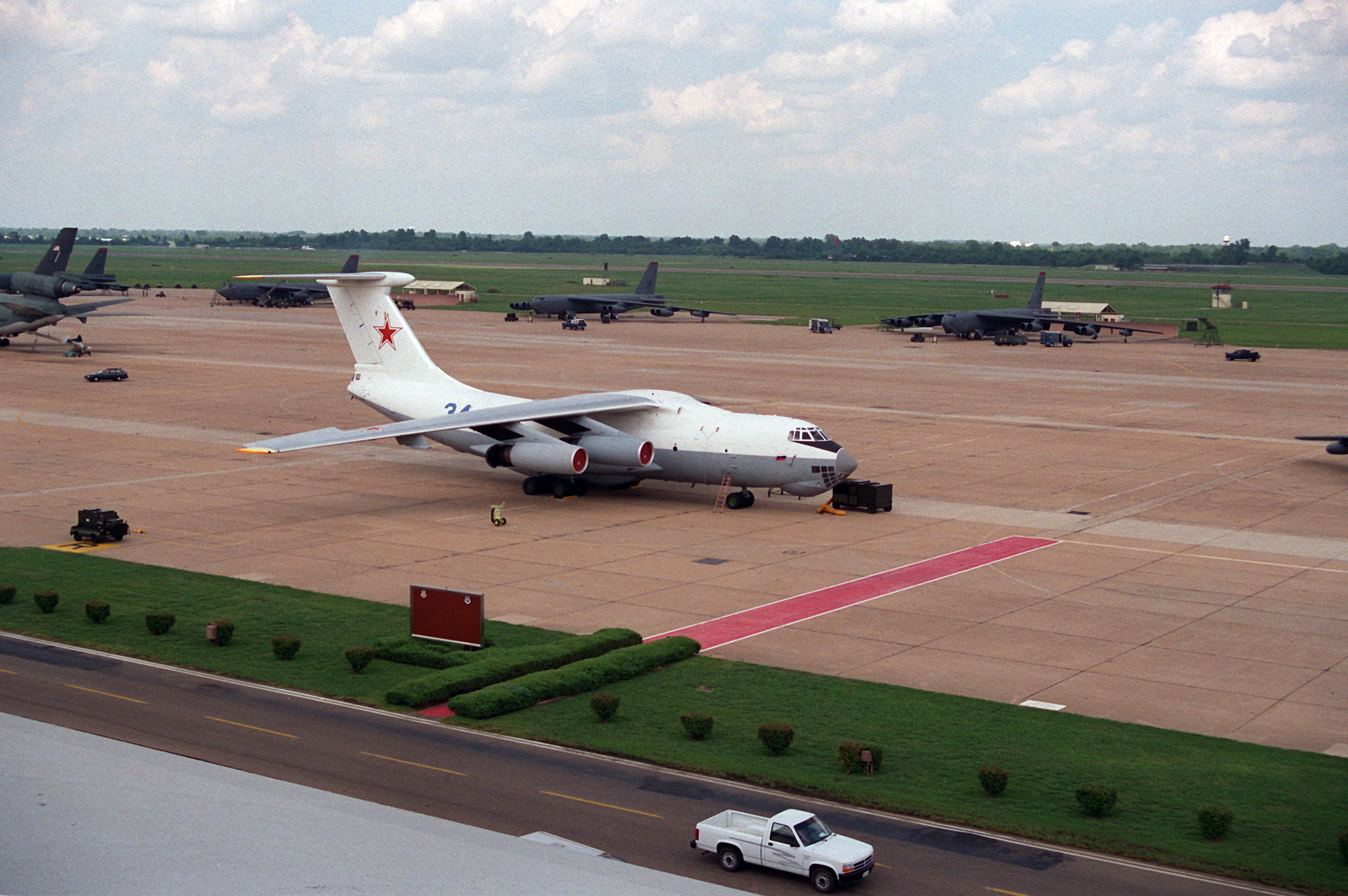 An IL-78 Midas sits on display on the flight line in support of the Russian visit, Barksdale Air Force Base, Louisiana (La) United States Of America (USA).